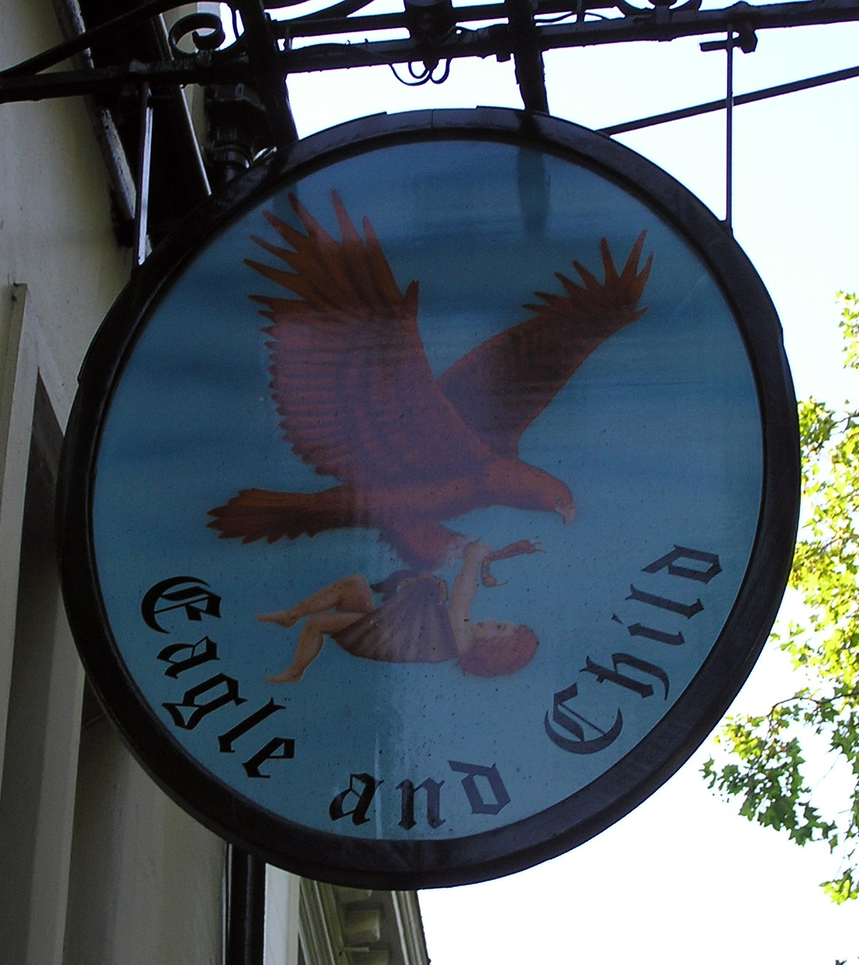 Picture of The Eagle and Child pub logo, in Oxford (England). Supposedly, J. R. R. Tolkien and C. S. Lewis met here.